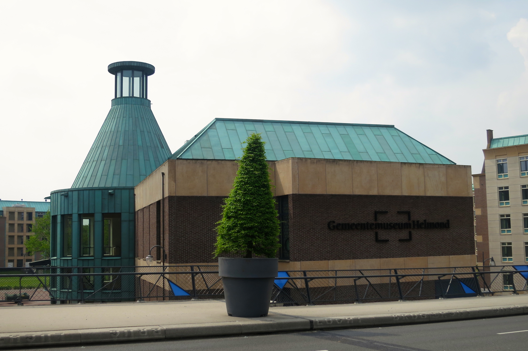 Vestiging Boscotondohal.